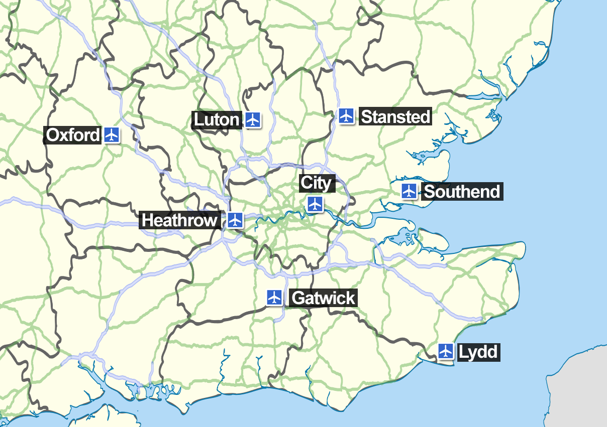 Map of the locatios of airports serving the London region in the UK: (ltr) Oxford (OXF) - Heathrow (LHR) - Luton (LTN) - Gatwick (LGW) - City (LCY) - Stansted (STN) - Southend (SEN) - Lydd (LYX). See also: Airports of London & Category:Airports in the London region.